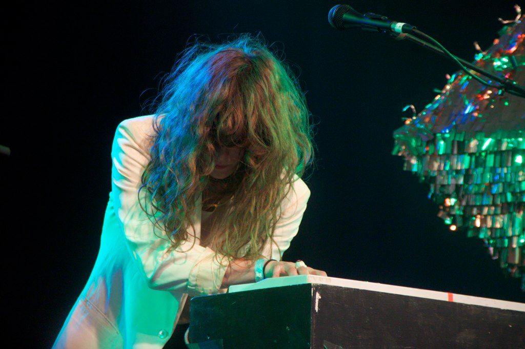 Beach House performing at Coachella 2010